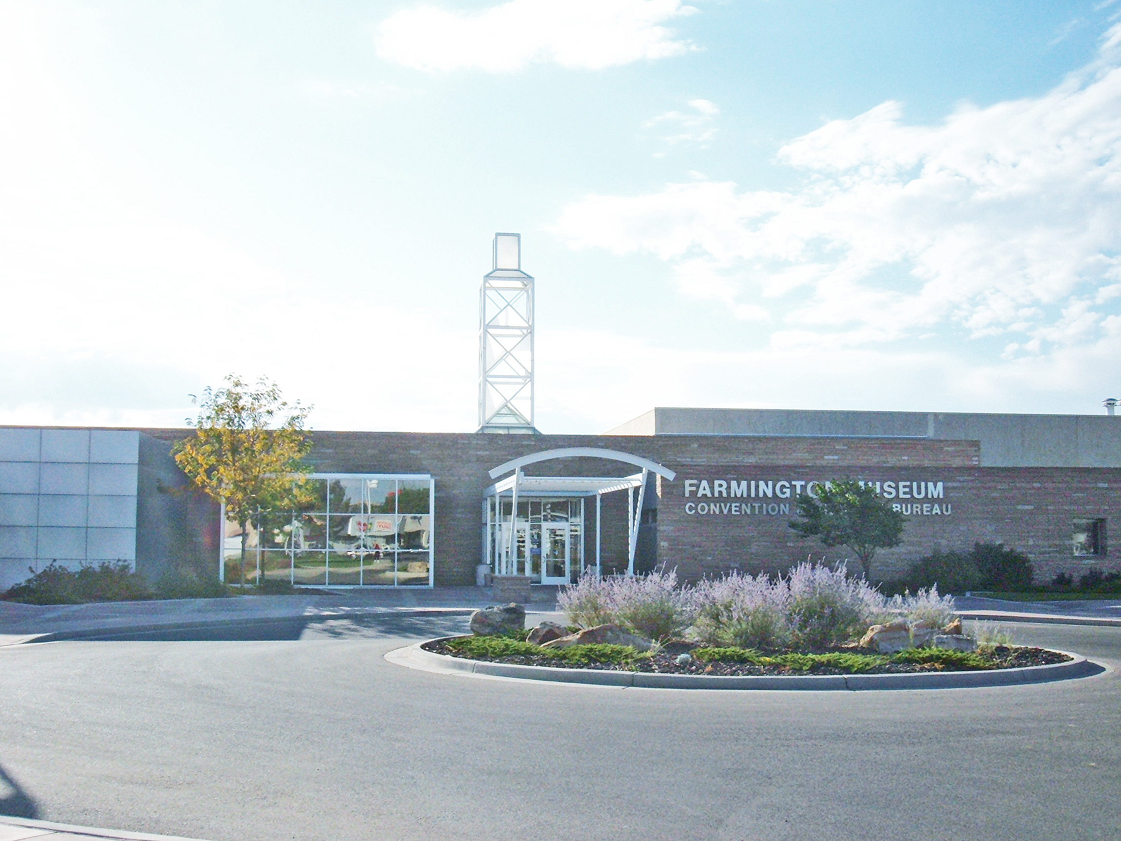 Farmington Museum and Convention and Visitors Bureau in Farmington, New Mexico